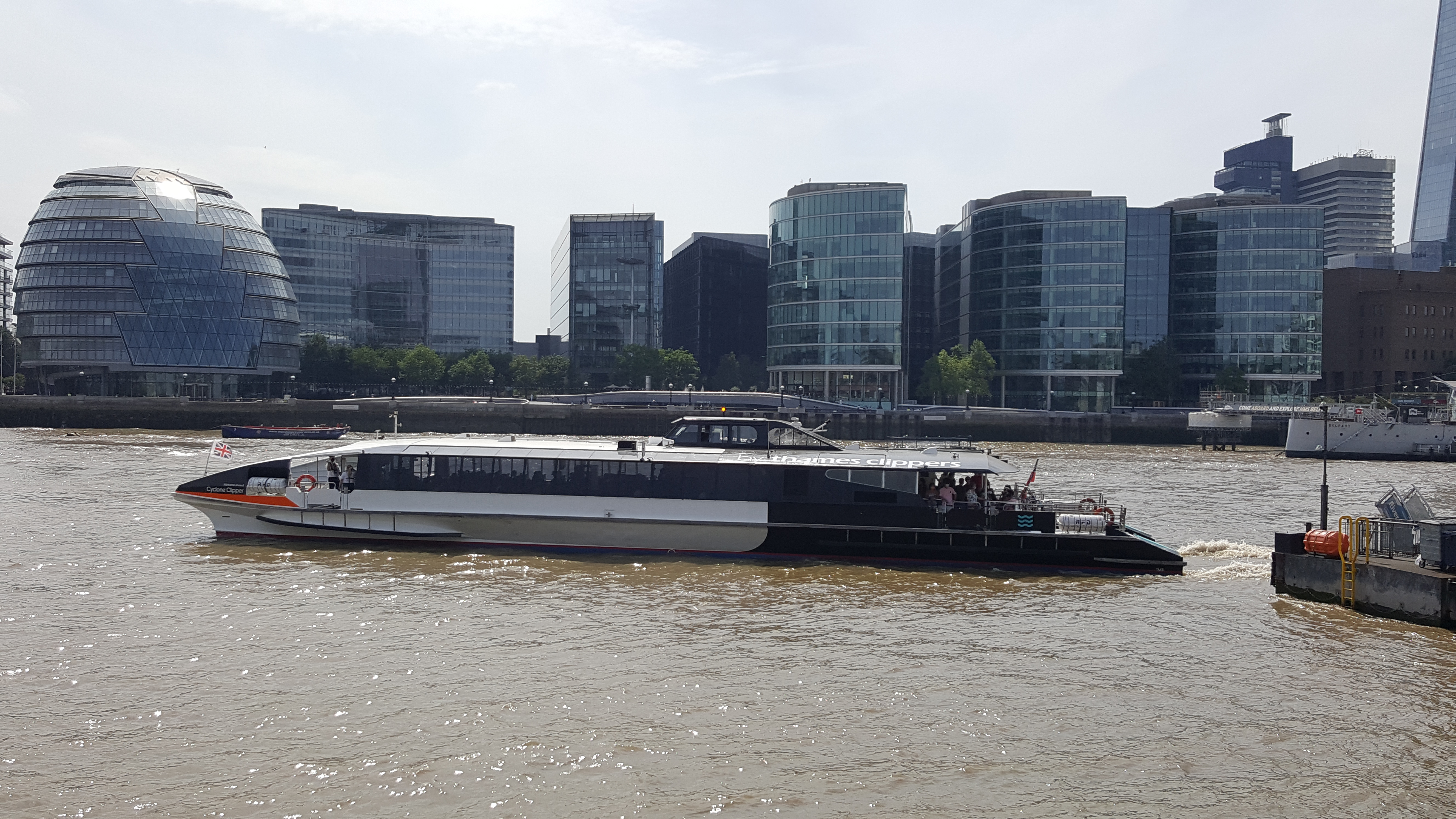 An Uber Boat in new livery without logos